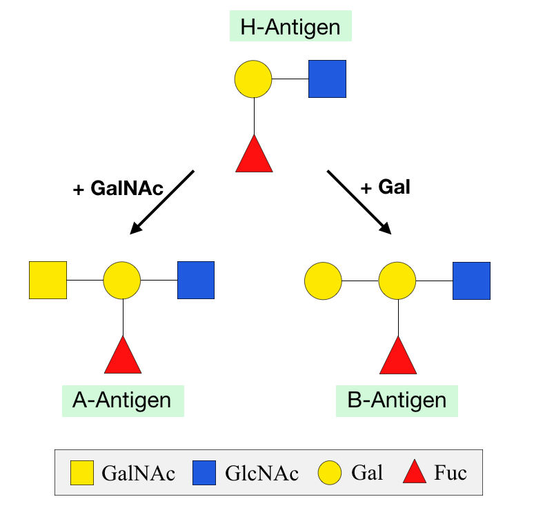 Galactose or N-acetylgalactosamine can be added to H-antigen to form B and A antigens respectively, which determine the blood groups of individuals.